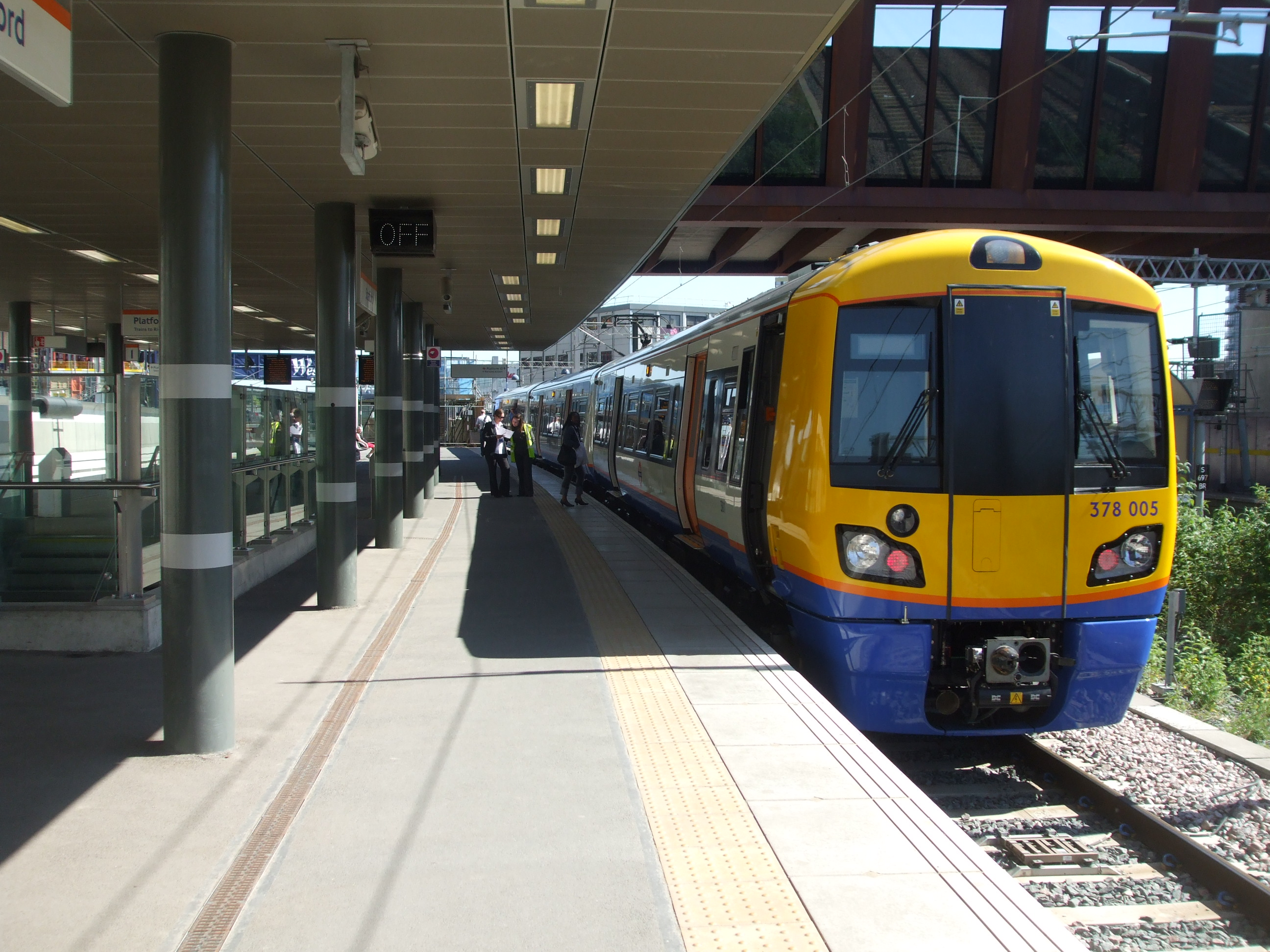 Class 378 unit 378005 awaits departure from Stratford with a Richmond service